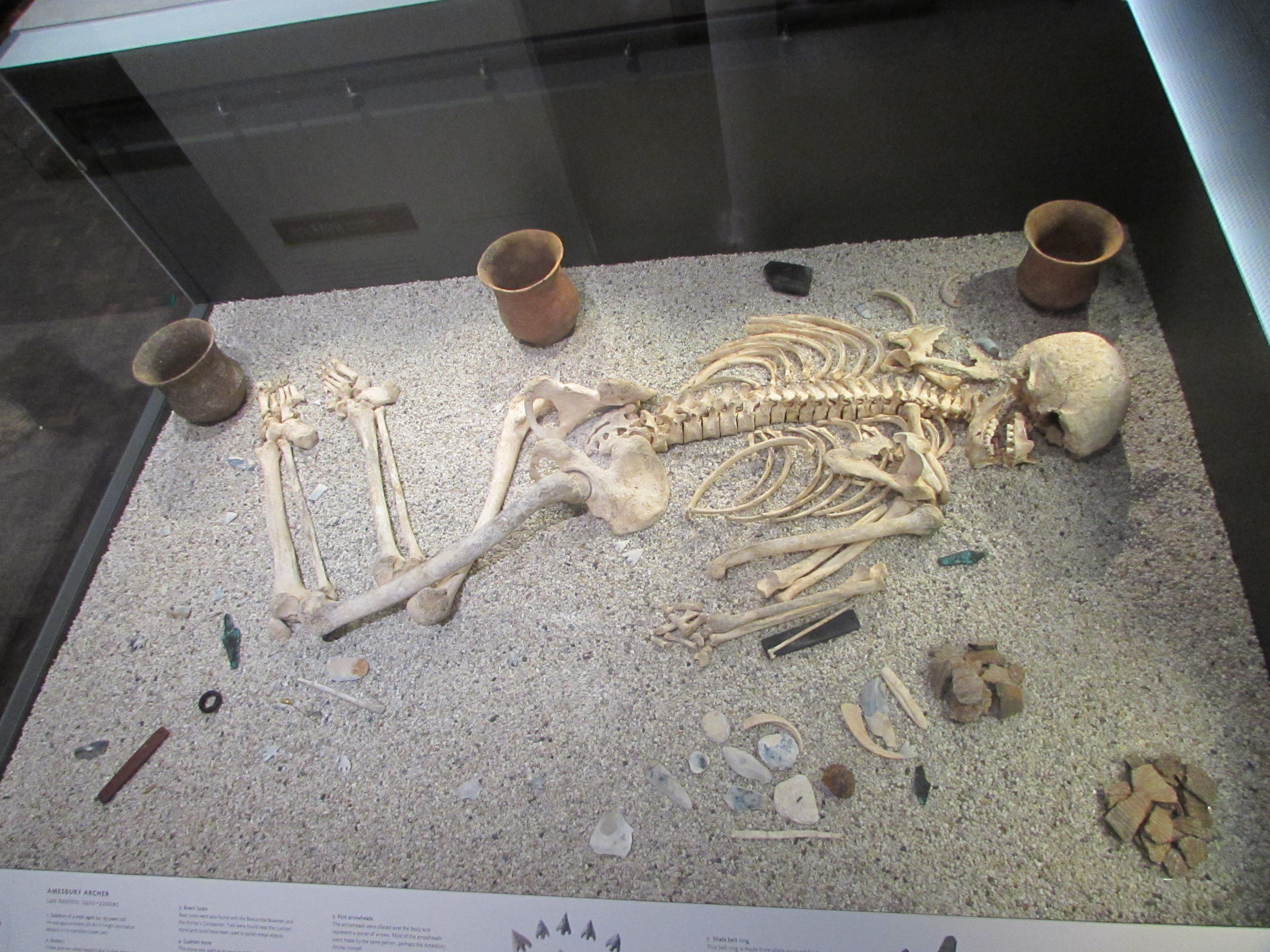 The Amesbury Archer, an early Bronze age figure found near Stonehenge during excavation for a housing development, now called Archer's Gate. This image is of the display in the redeveloped Wiltshire Archaeology Gallery at Salisbury Museum.